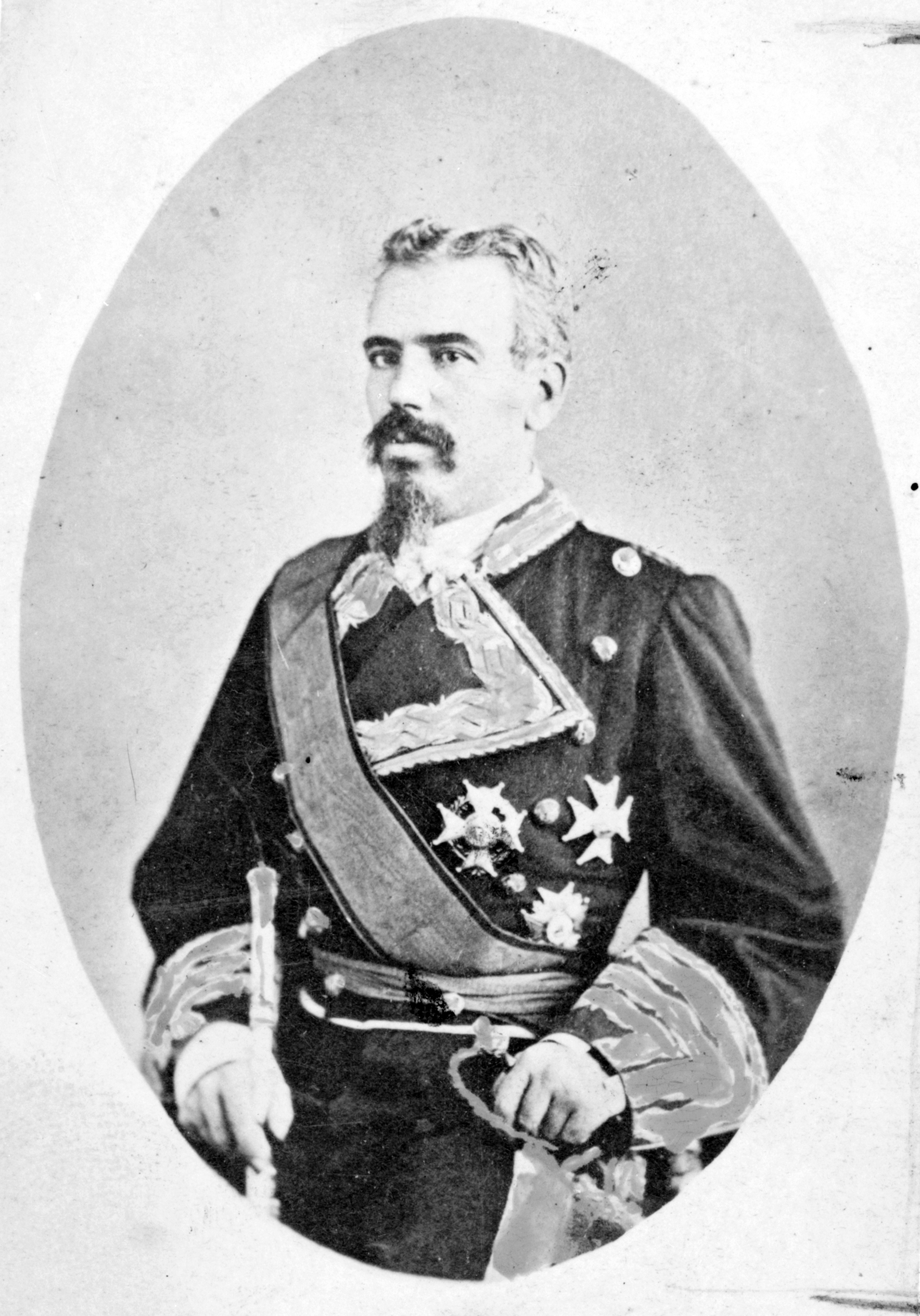 Arsenio Martínez-Campos y Antón, Spanish captain-general of Cuba, three-quarter length portrait, in uniform, facing left